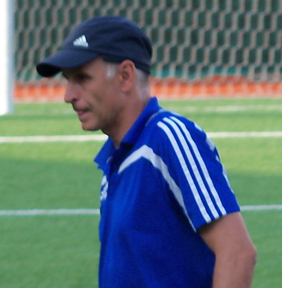 Ukrainian football coach Yuriy Chumak